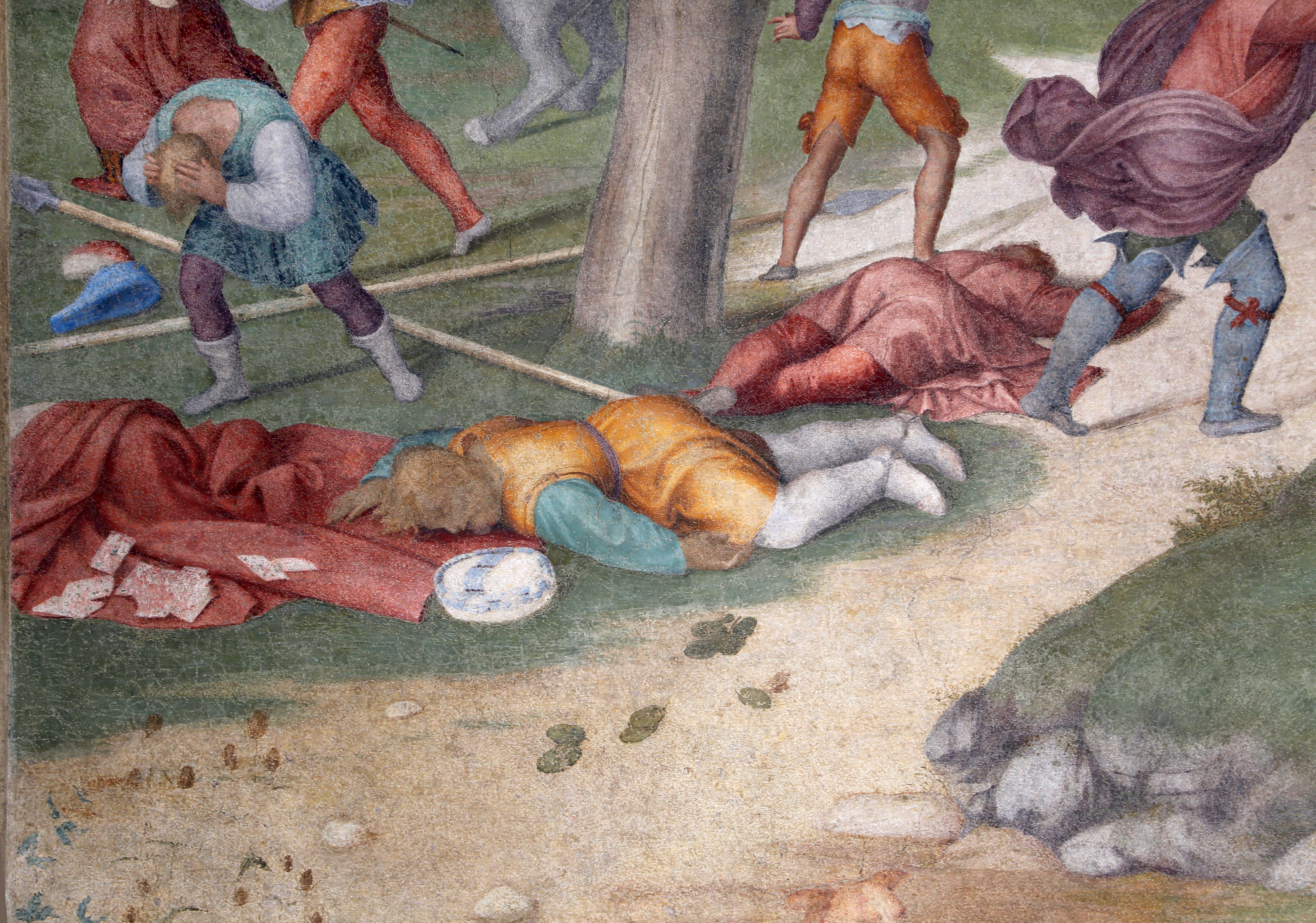 Punishment of the Blaspheme Gamblers by Andrea del Sarto